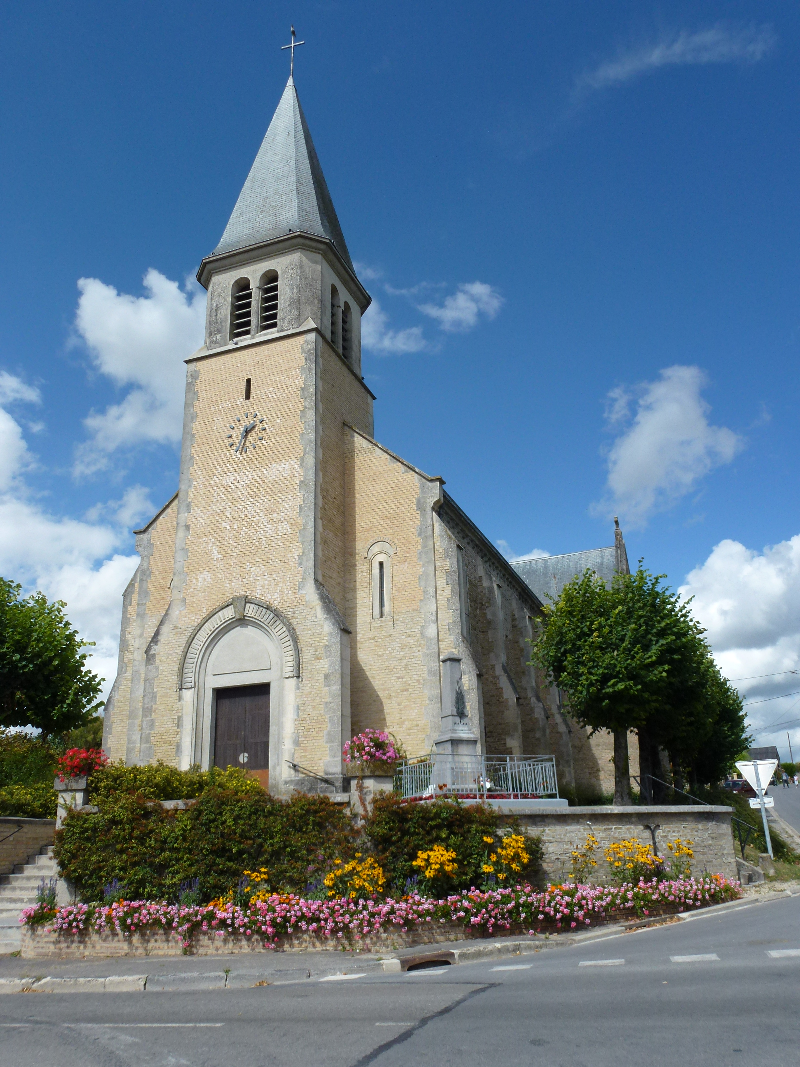 Barby (Ardennes) Saint John the Baptist Church